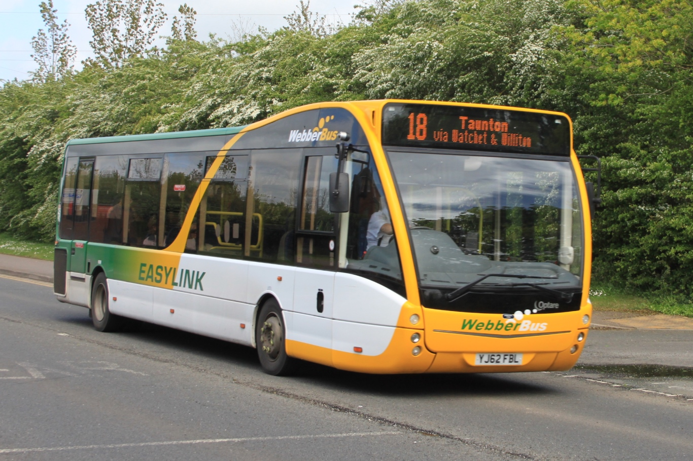 A Webberbus from Minehead heads down the Silk Mills Road into Taunton. YJ62FBL is a 37-seat Optare Versa V1100 dating from January 2013.